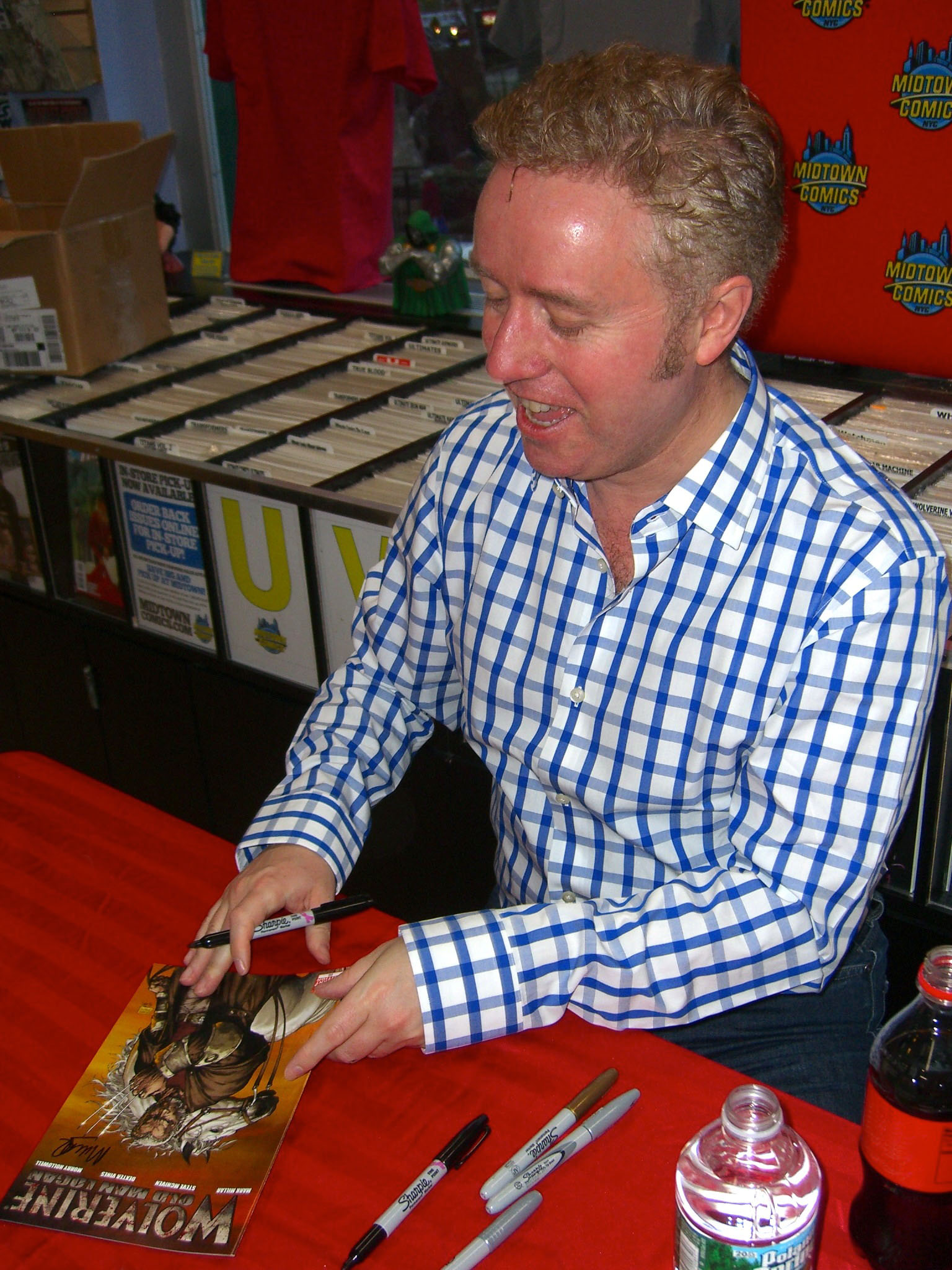 Scottish comics writer Mark Millar at an April 25, 2013 signing at Midtown Comics in Manhattan for his miniseries, Jupiter's Legacy, which debuted the day prior. In the photo, Millar is signing a copy of one of his previous works, Wolverine: Old Man Logan. This photo was created by Luigi Novi. It is not in the public domain, and use of this file outside of the licensing terms is a copyright violation.